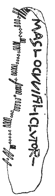 Drawing of both inscriptions (Ogham and Latin) of the Maglocunus Stone (CIIC 446), also called Nevern Stone I. The Maglocunus Stone is in the St Brynach’s Church Nevern, Pembrokeshire, Wales.